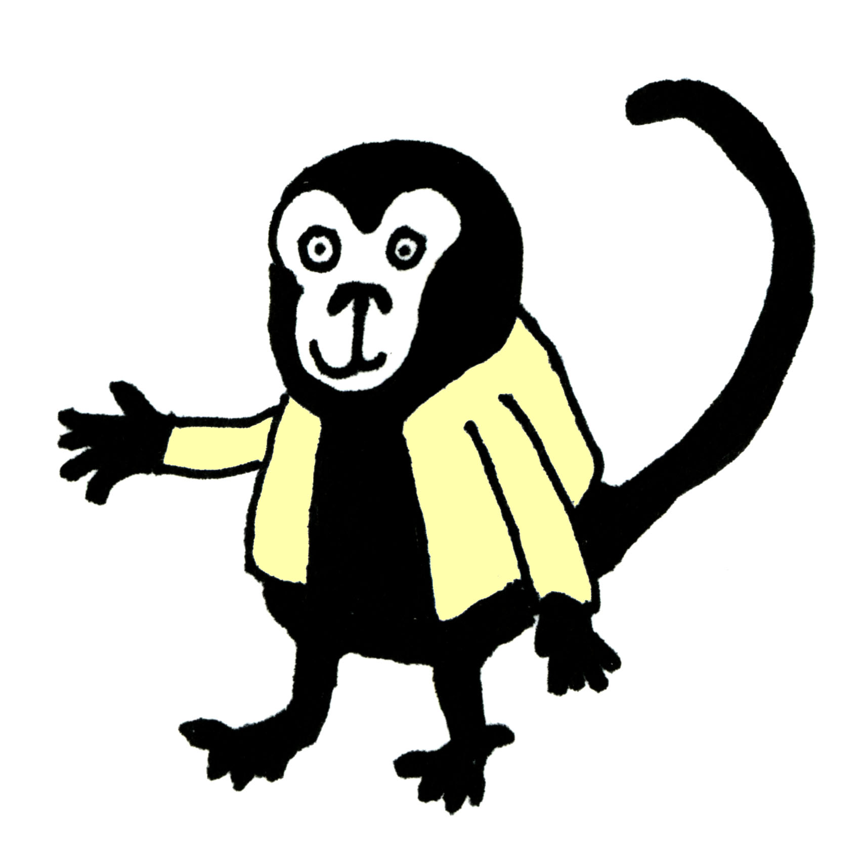 drawing of mr. nilsson